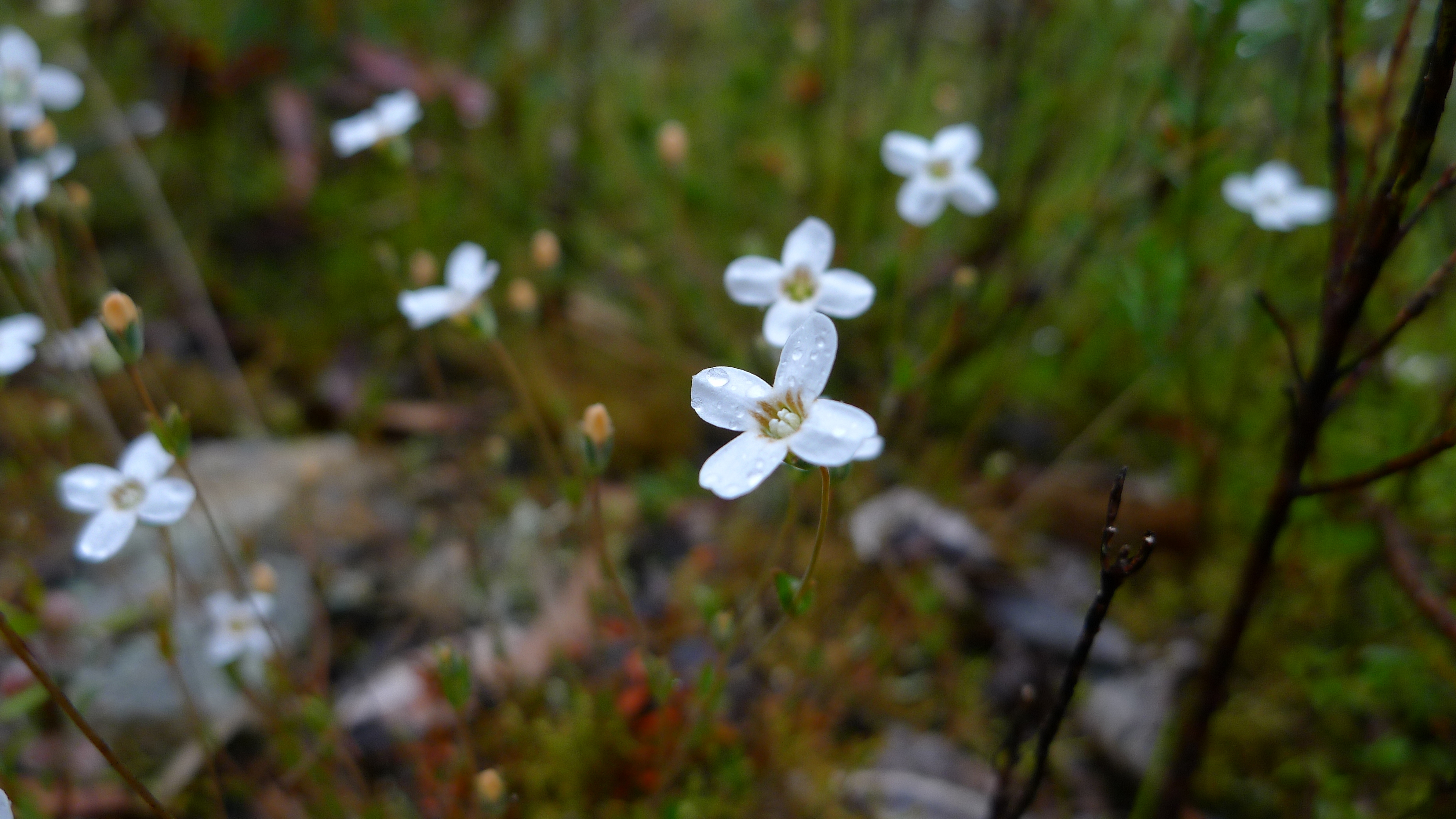 Mitre Weed, Mitrasacme polymorpha. Wog Wog, Morton National Park, NSW Australia, November 2012.